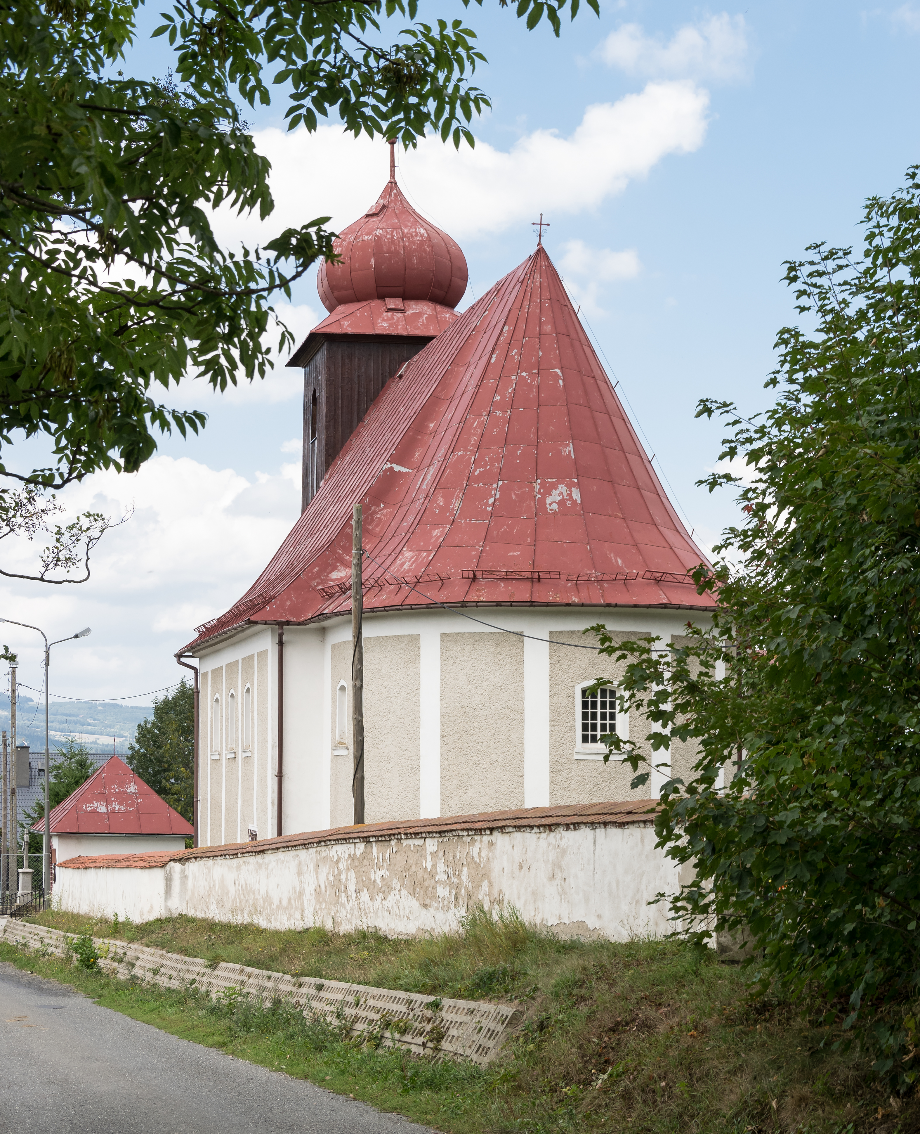 Saint Florian church in Szklarnia Wikidata has entry Q30049179 with data related to this item.